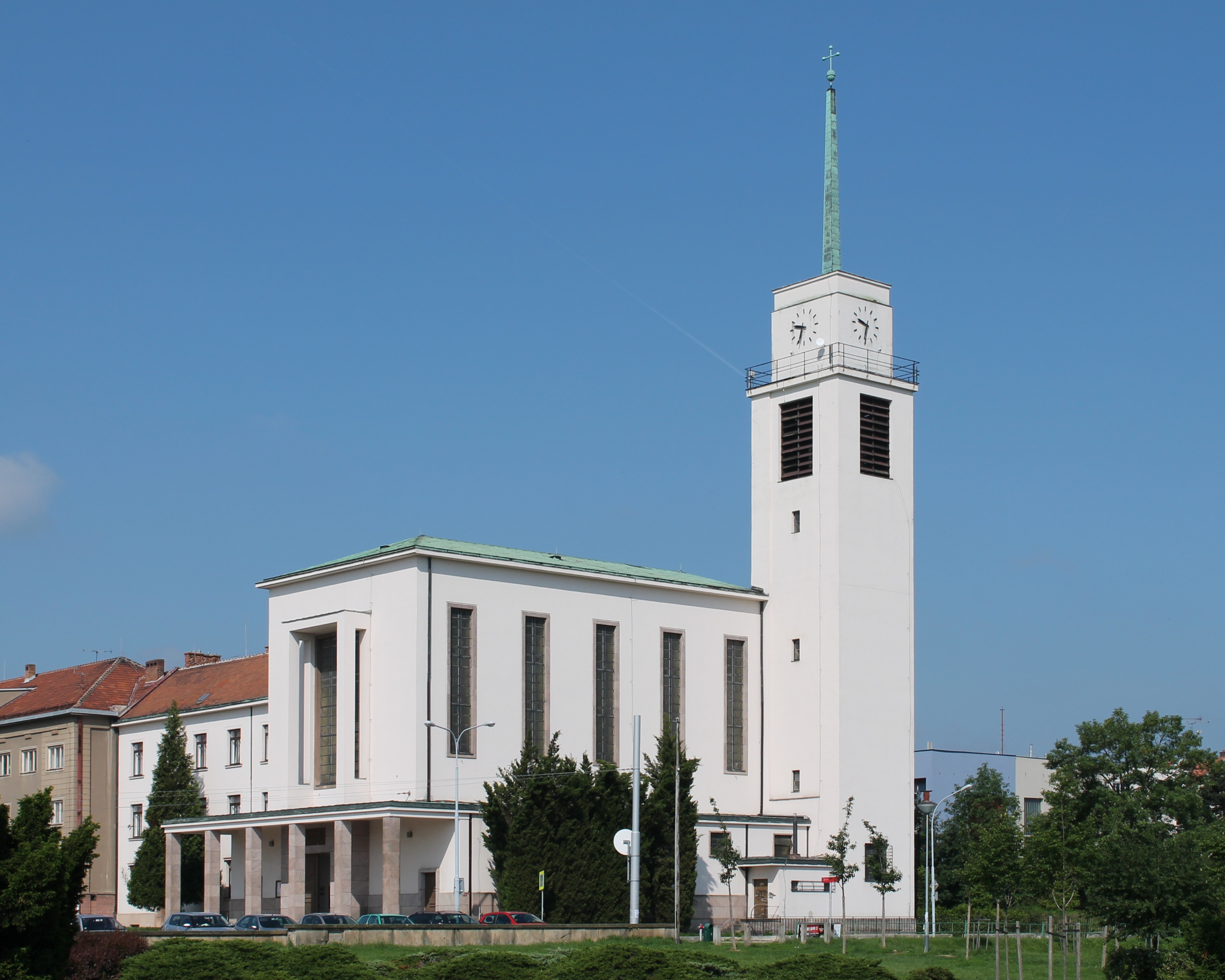 Church of Saint Augustine, Brno, Czech Republic